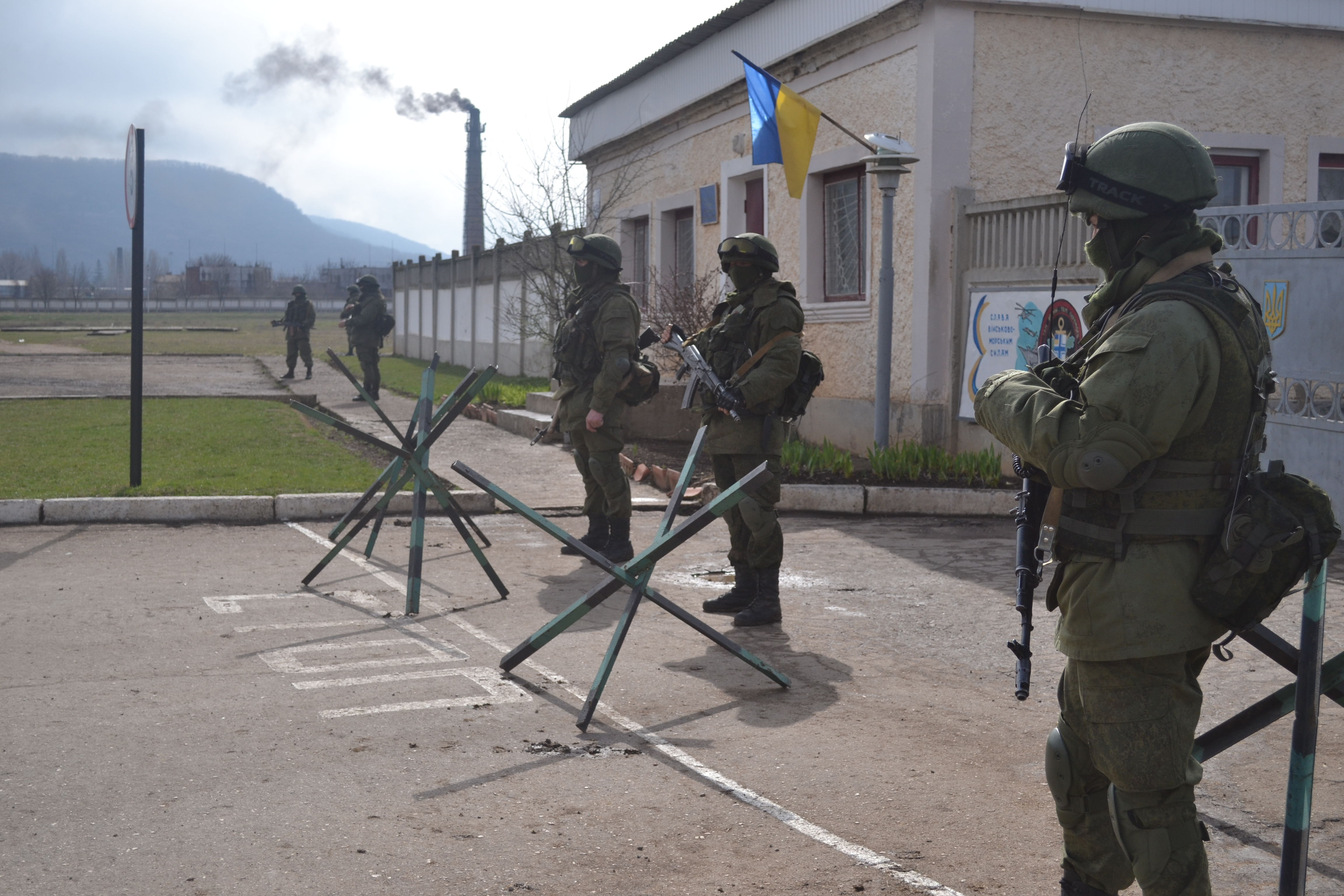 Military base at Perevalne during the 2014 Crimean crisis.